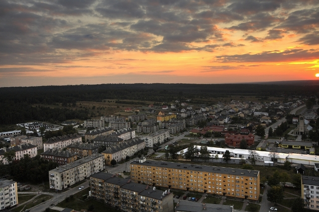 Panorama Centre Stąporków City